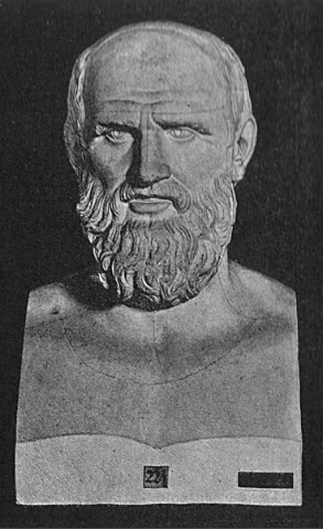 Hippokrates von Kos, Greek physician